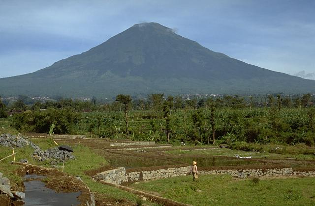 Eastern flank of Gunung Sundoro, one of the most symmetrical volcanoes in Java.